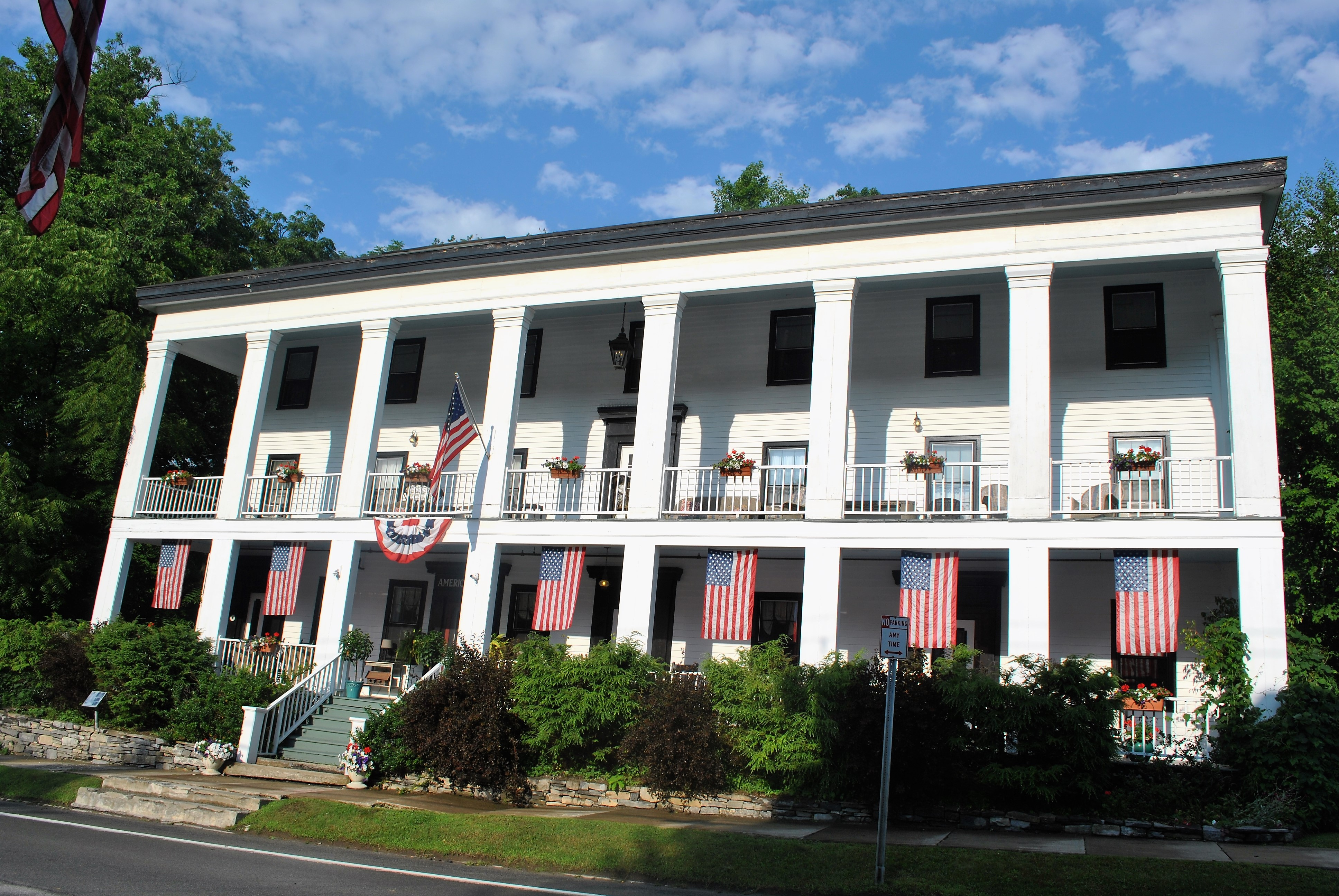 Image originally published in Queer Places: Retracing the Steps of LGBTQ people around the World Authored by Elisa Rolle